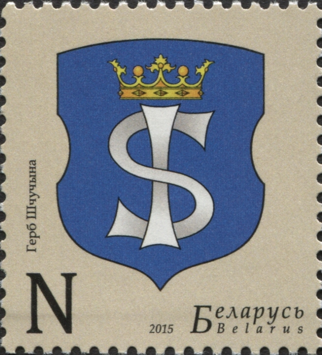 Stamps of Belarus, 2015